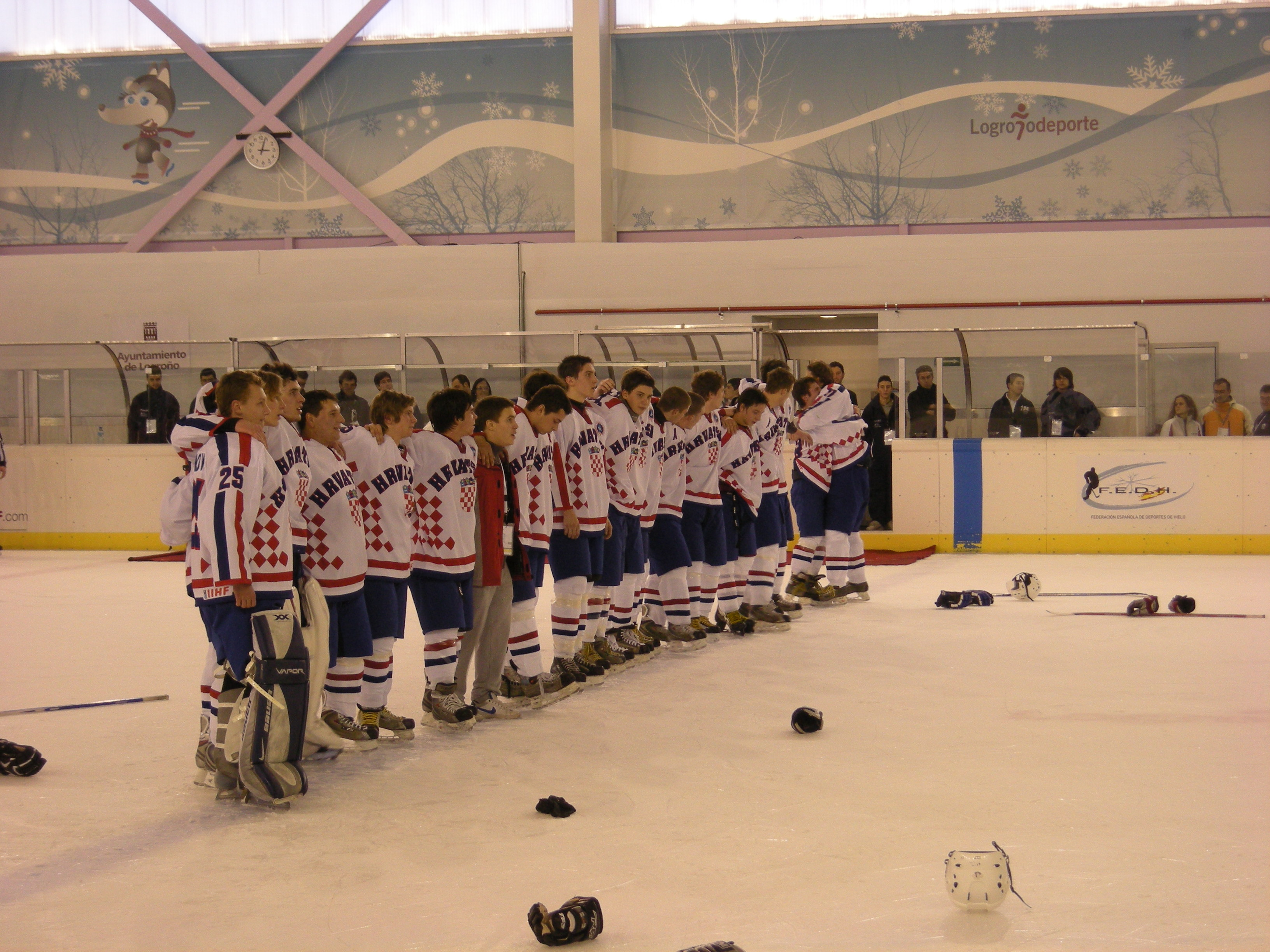 Croatia team, champion of the Group B of the 2009 IIHF World U20 Championship Division II in the C.D.M. Lobete in Logroño, La Rioja, Spain.